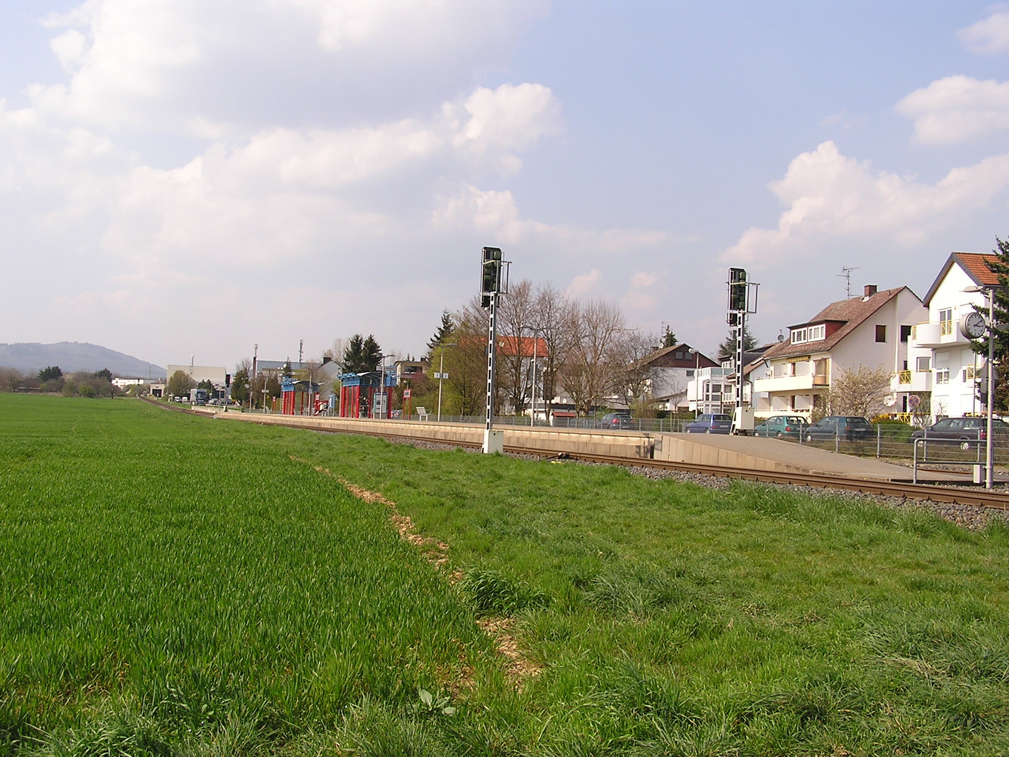 Station Liederbach at the Königsteiner Bahn